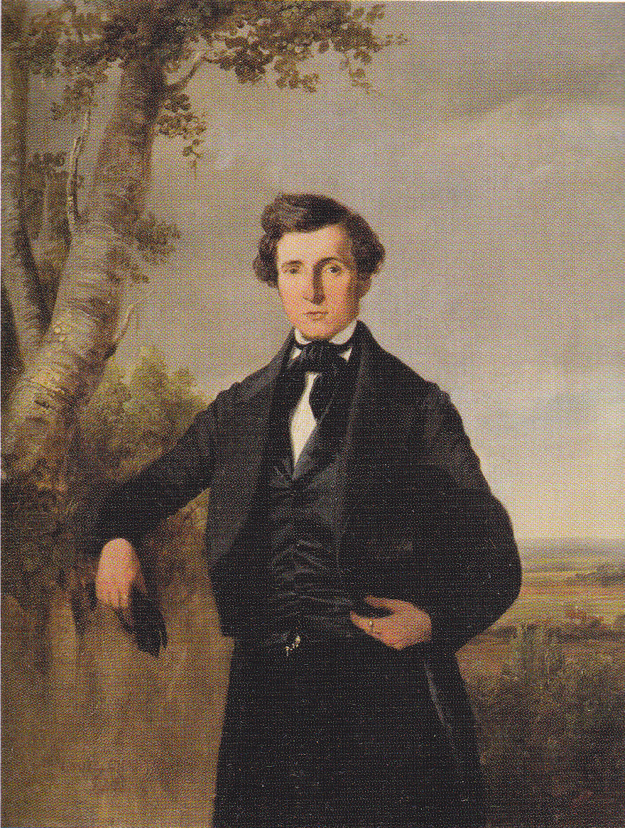 Portrait of Dutch poet J.P. Hasebroek, by Louis Chantal, 1847. Location in 2016: Nederlands Letterkundig Museum, The Hague (the Netherlands)